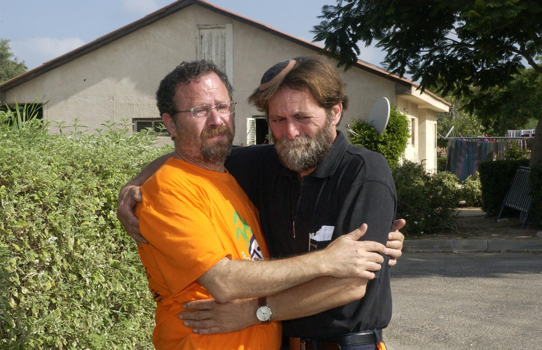 August 17, 2005. The evacuation of the Israeli community Ganei Tal. The evacuation of Ganei Tal was part of the Gaza Disengagement, which occurred during the summer of 2005.